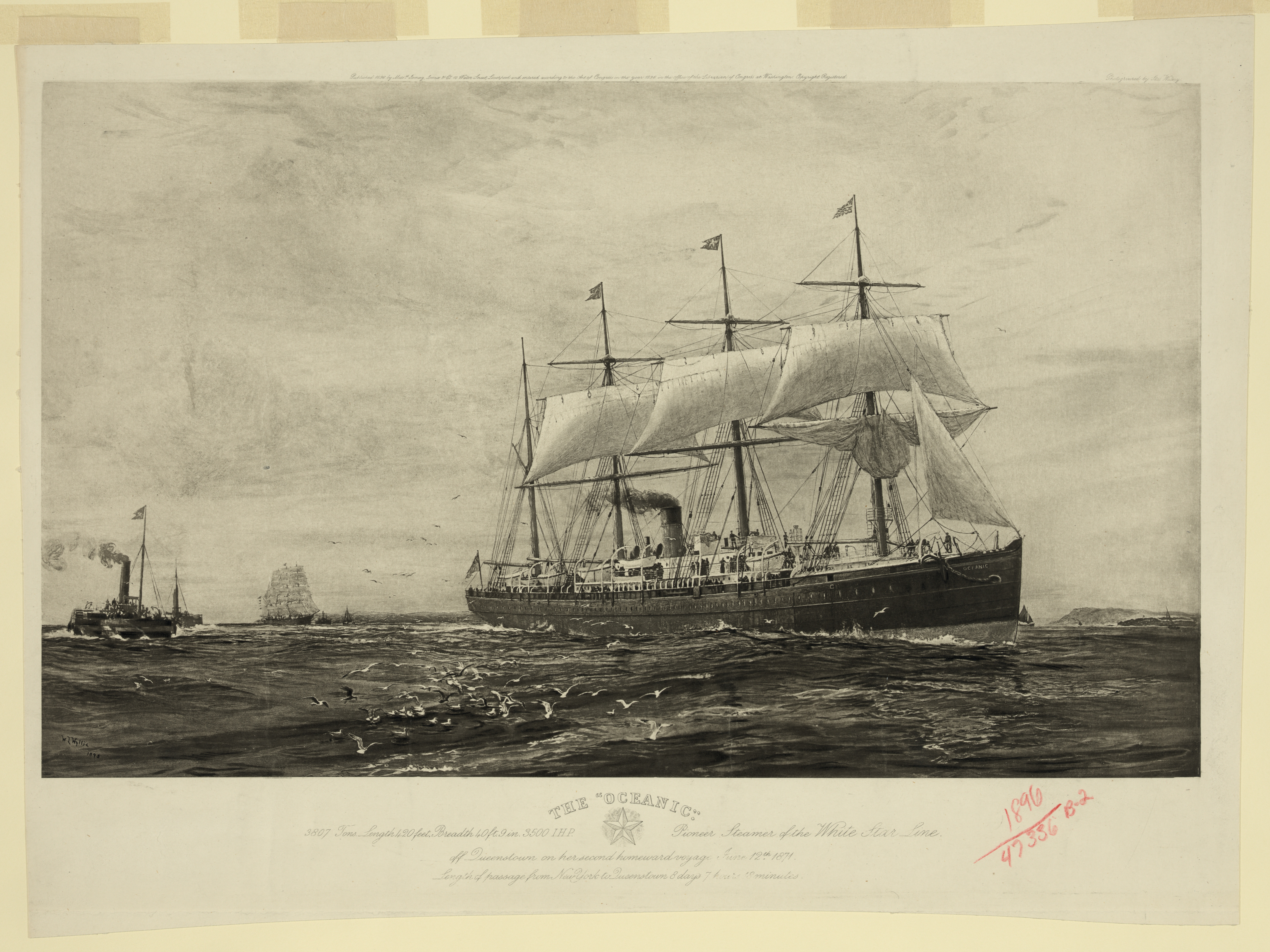 The Oceanic off Queenstown (Cobh, Ireland) on her second homeward voyage from New York, June 12th 1871, by William Lionel Wyllie, 1895. Full caption : Published 1896 by Mssrs Ismay, Imrie & Co 10 Water Street, Liverpool and entered according to the Act of Congress in the year 1896 in the office of the Librarian of Congress at Washington. Copyright Registered. Photogrvured [sic] by Stas Walery. THE "OCEANIC": 3807 Tons. Lenght 420 feet, Breadth 40 ft.9in.3500 I.H.P. Pioneer Steamer of the White Star Line. Off Queenstown on her second homeward voyage June 12th 1871. Length of passage from New York to Queenstown 8 days 7 hours 18 minutes. Signed : W.L. Wyllie 1895.